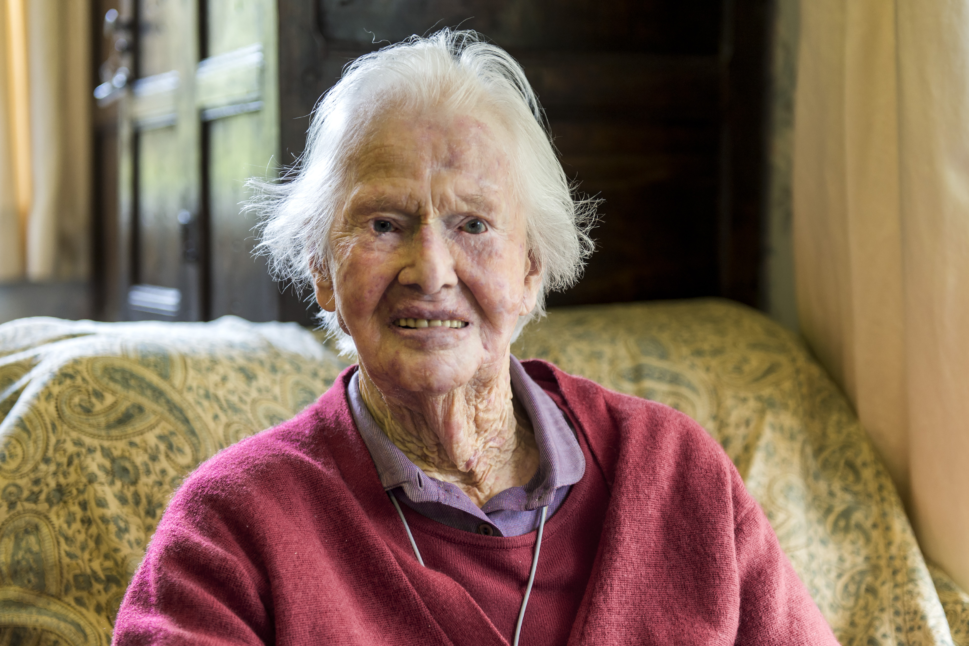 Nancy Sandars was a celebrated archaeologist and writer. She specialised in the Bronze Age and wrote a number of books on this period of prehistory. She also wrote a translation of the ancient Mesapotamian poem, The Epic of Gilgamesh, which was published by Penguin and sold over a million copies. She lived in the Oxfordshire village of Little Tew.